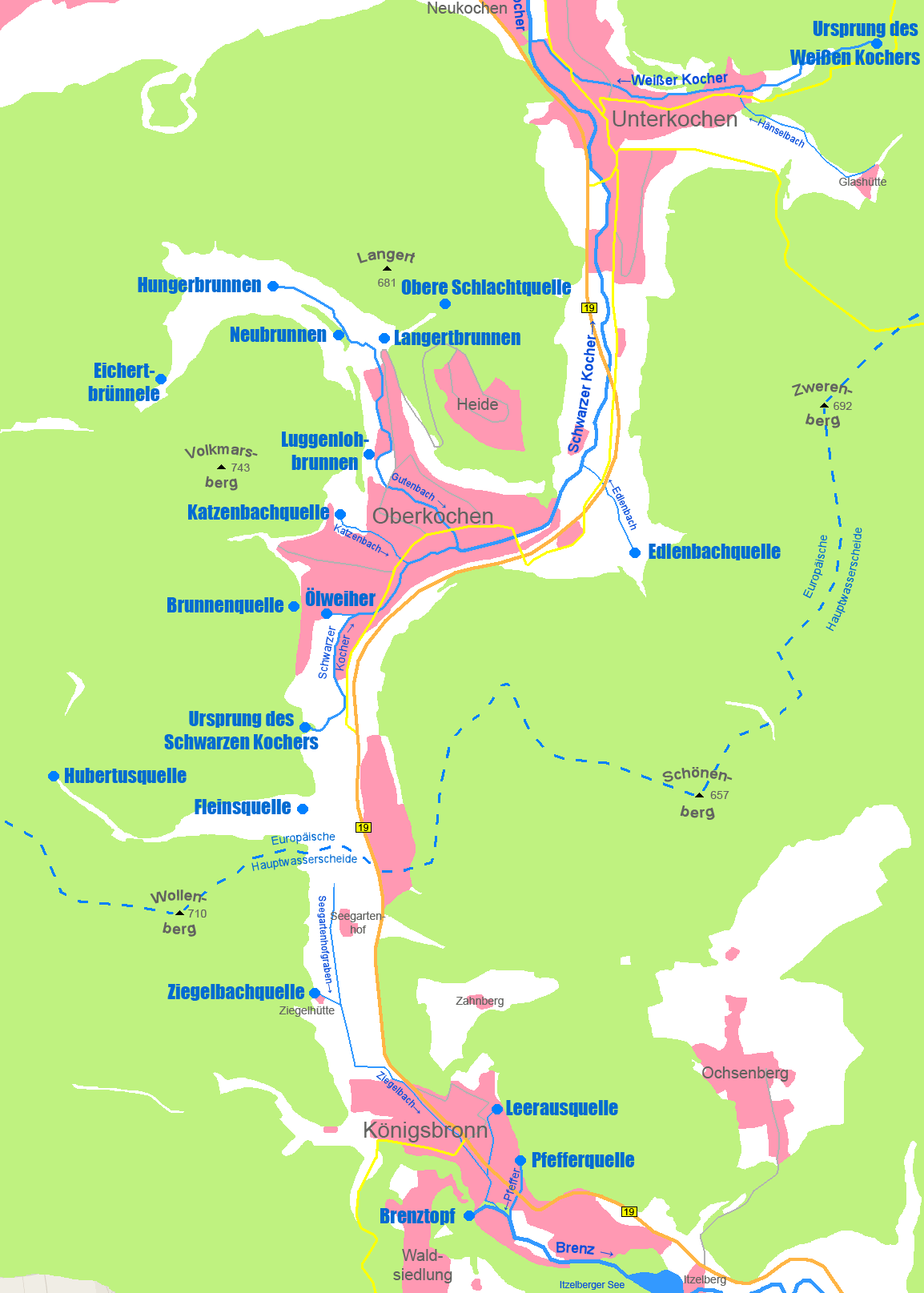 Karst springs near Oberkochen and Königsbronn Grassland, Meadow Settlement area Forest Body of water European Watershed 743 Above sea level Side street Main street Federal highway Karst spring